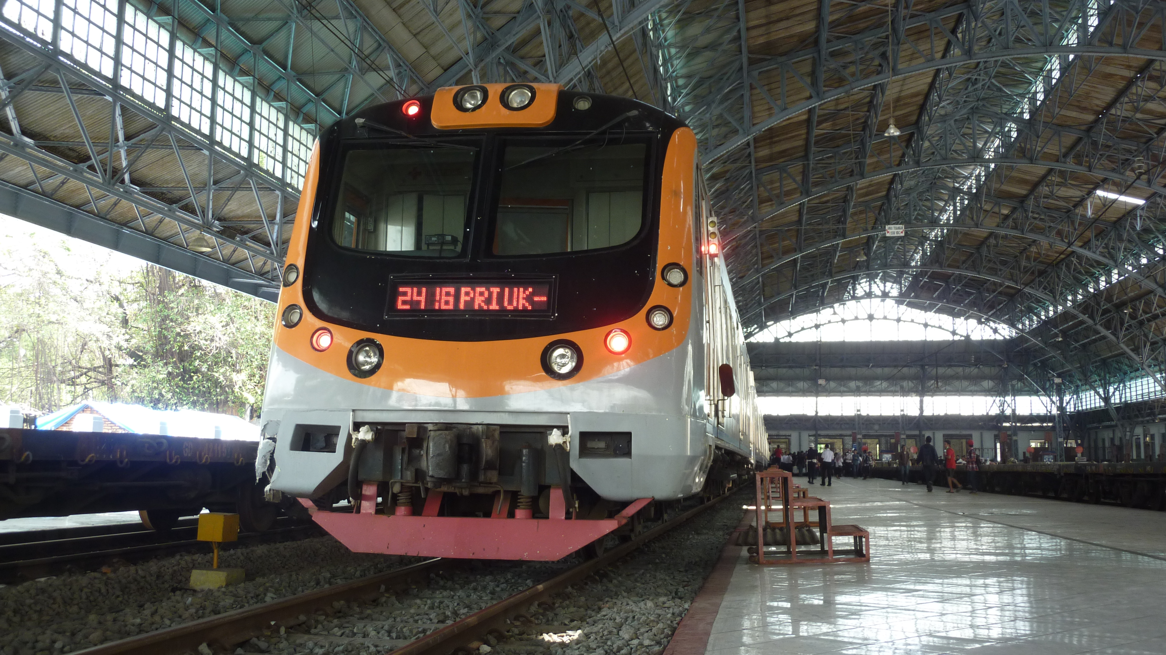 An Indonesian EMU made by INKA-Bombardier set K3 1 11 13 in service for Tanjung Priok Feeder, December 2015